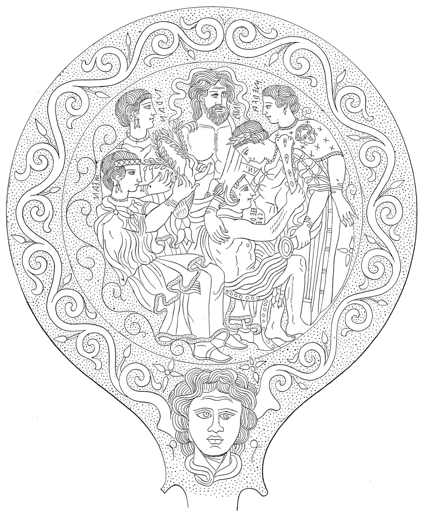 Etruscam mirror with Tinia Uni Hercle Menrva Turan Mean